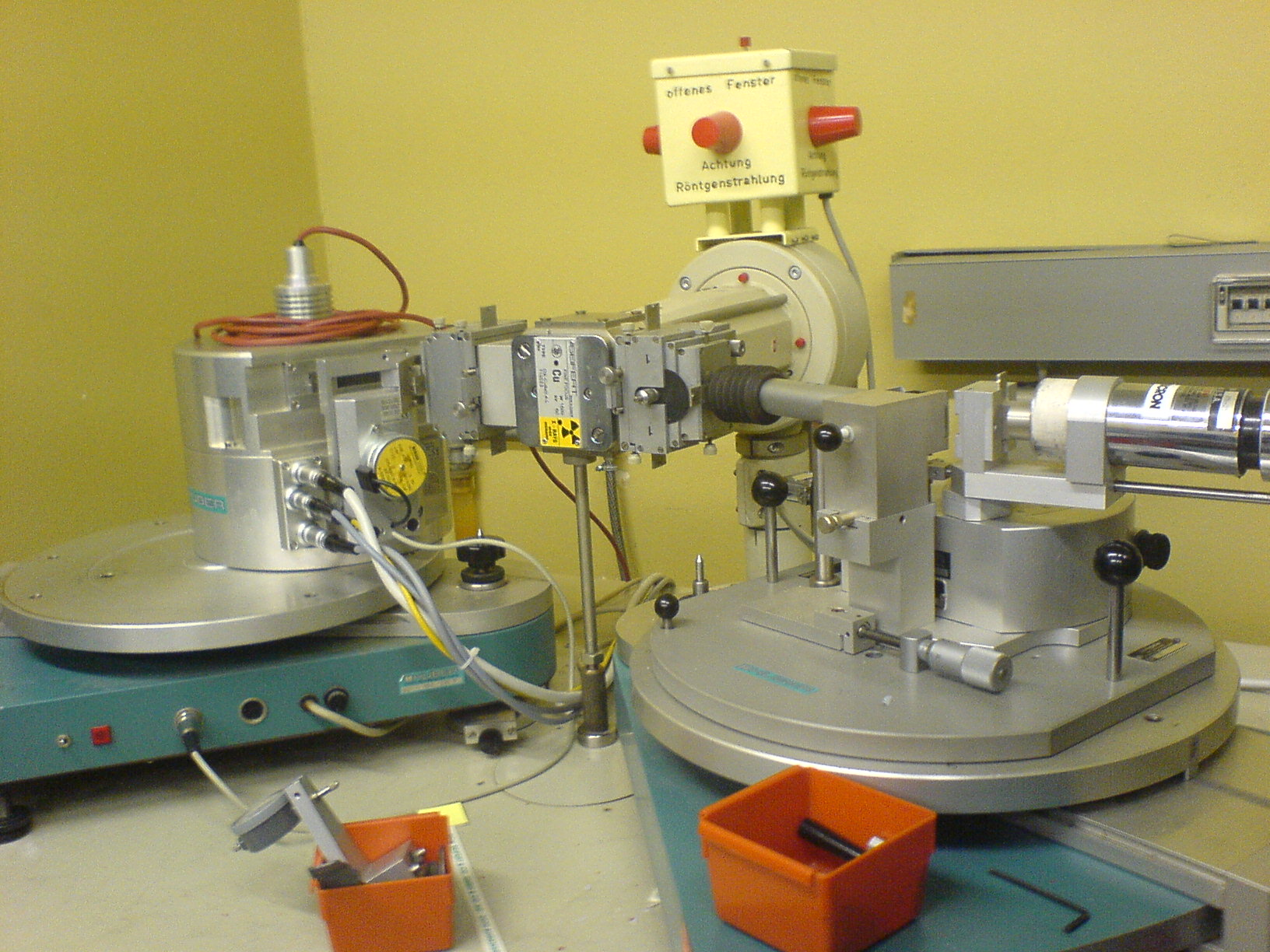 X Ray Diffractometer